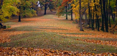 narrow mounds in the fall season at Effigy Mounds National Monument, Iowa, USA